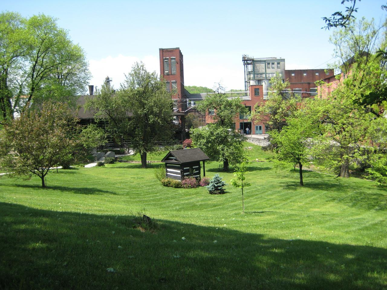 Part of the grounds of Buffalo Trace Distillery. Part park, part factory, part history lesson.